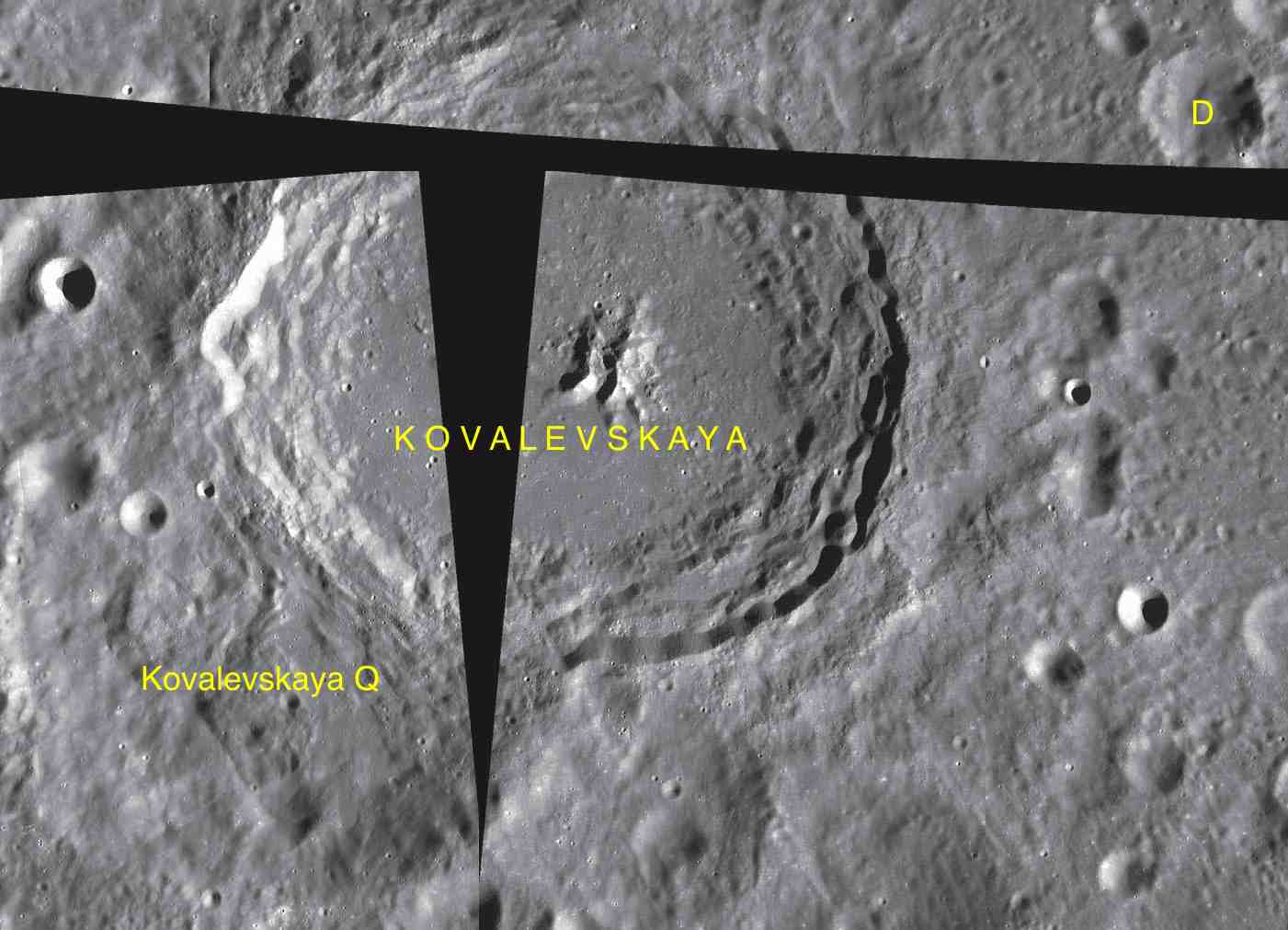 Parts of the charts LAC-35, LAC-52 and LAC-53 used for the presentation